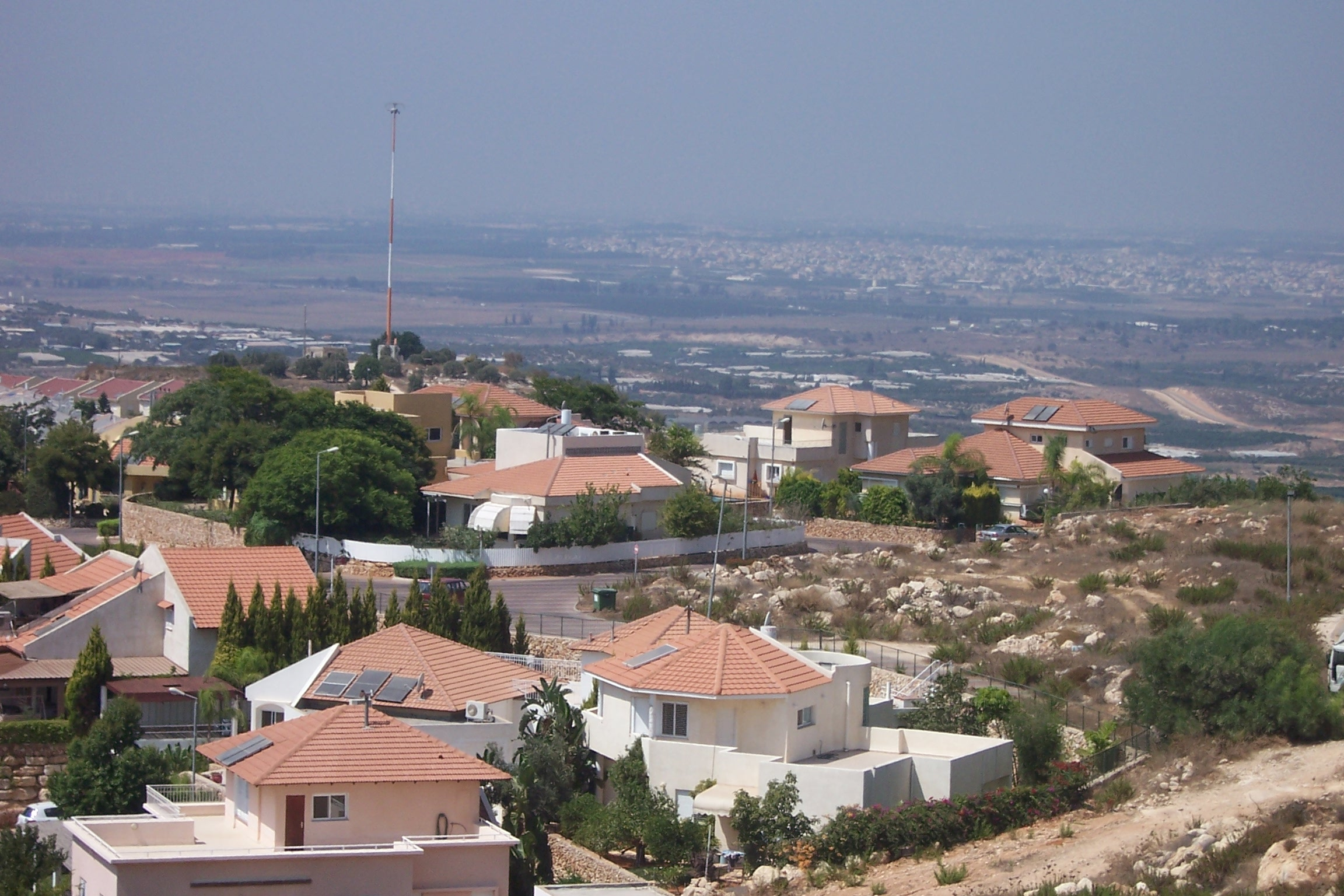 View from the high point of the Alfe-Menashe settlement in the Israeli area of the West Bank, with the separation barrier in the background on the right side.